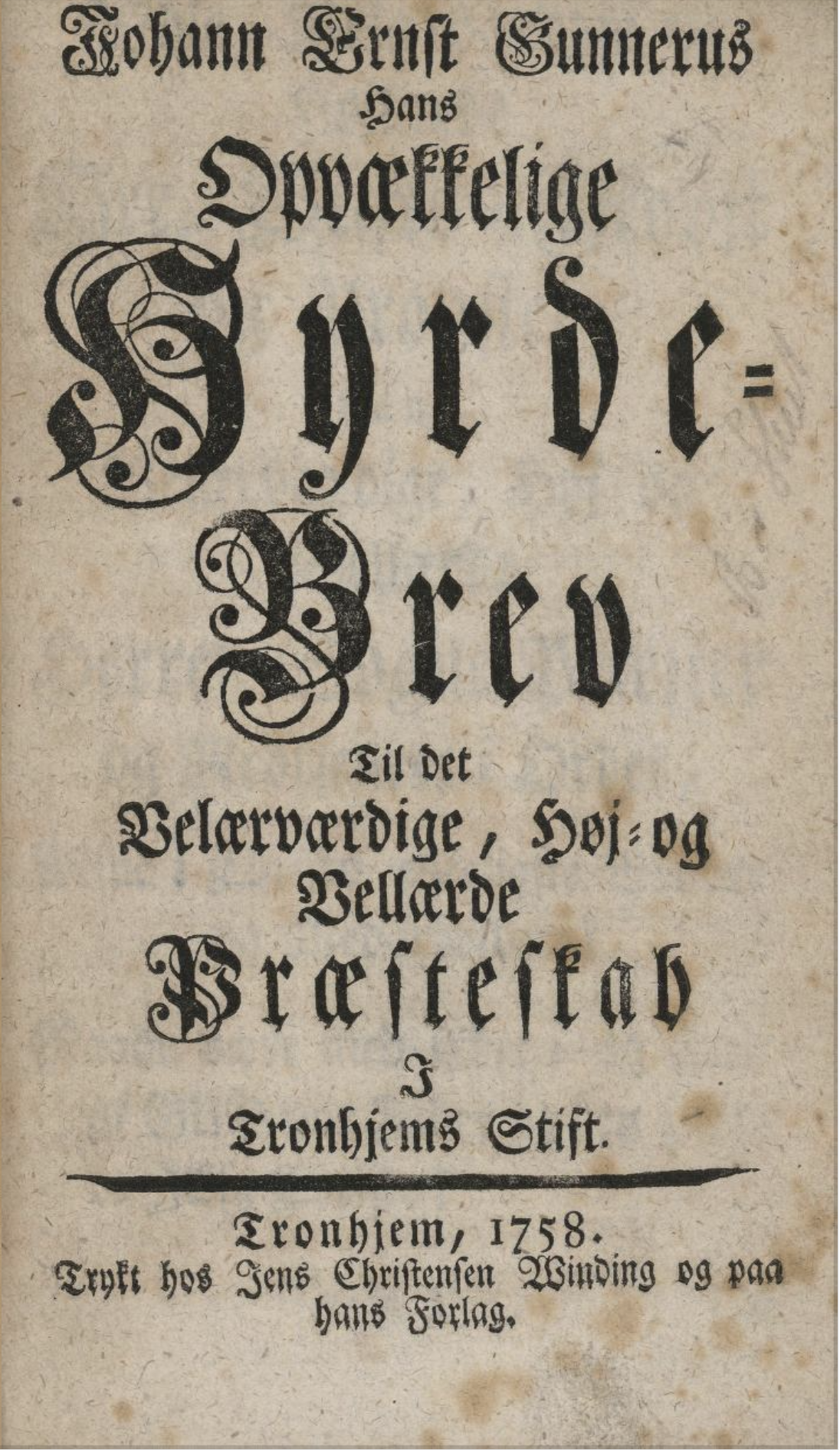 Front cover of the Norwegian bishop Johann Ernst Gunnerus' pastoral letter from 1758